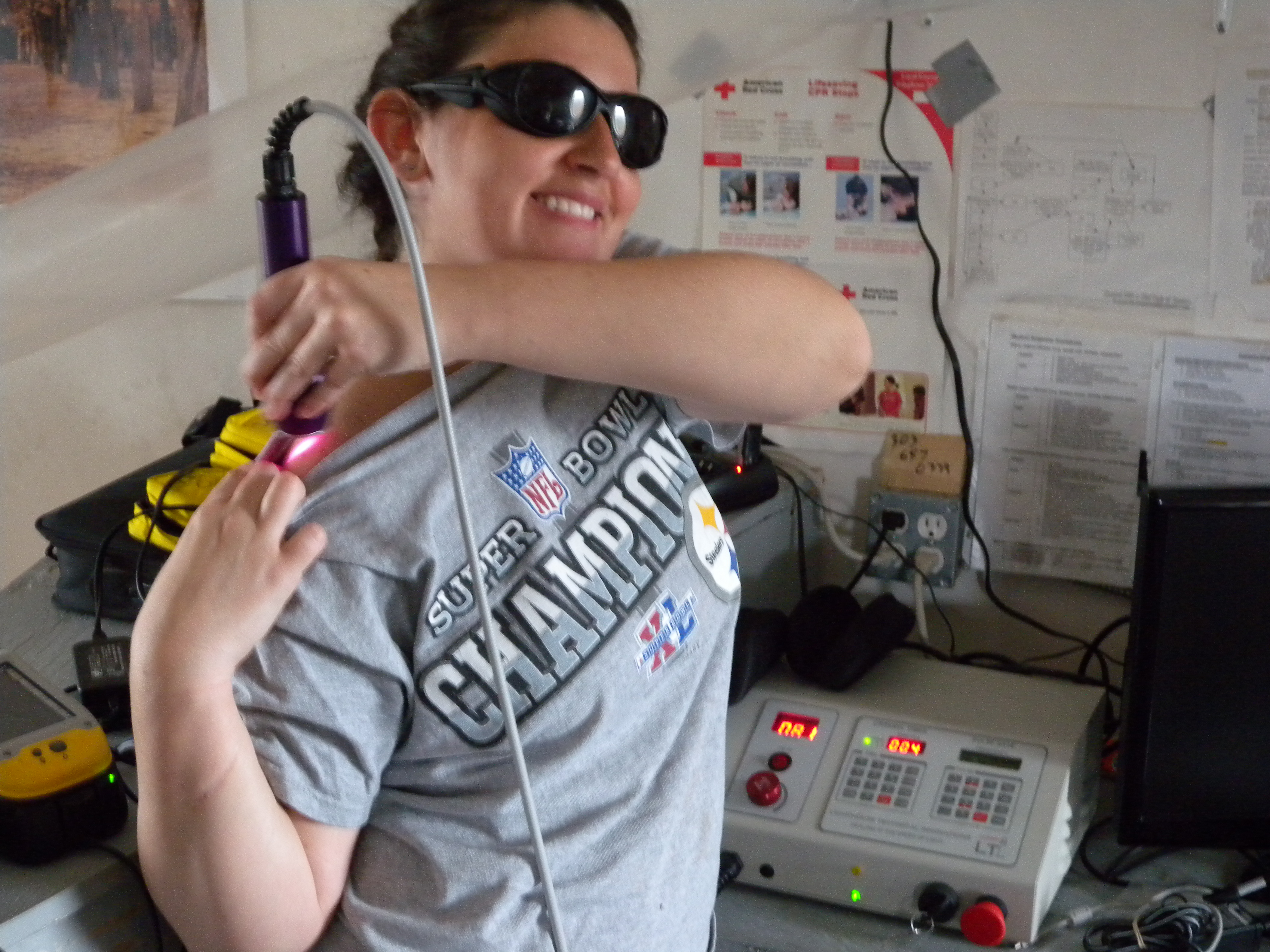 FMARS 2009 crew member Kristine Ferrone makes use of a Class IV High Power Laser therapy device provided by Lighthouse Technical Innovation. This picture was taken on the second floor within the Flashline Mars Arctic Research Station (FMARS) on Devon Island, Nunavut, Canada. Image taken by Joseph E. Palaia, IV on 7/26/2009 during the 2009 FMARS expedition.